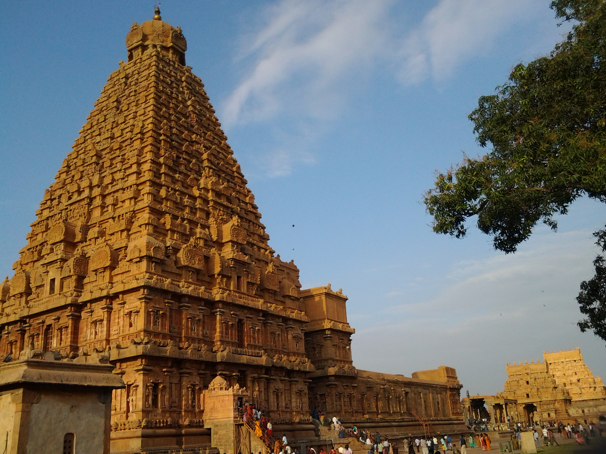 1000 years old pride of Chola dynasty.